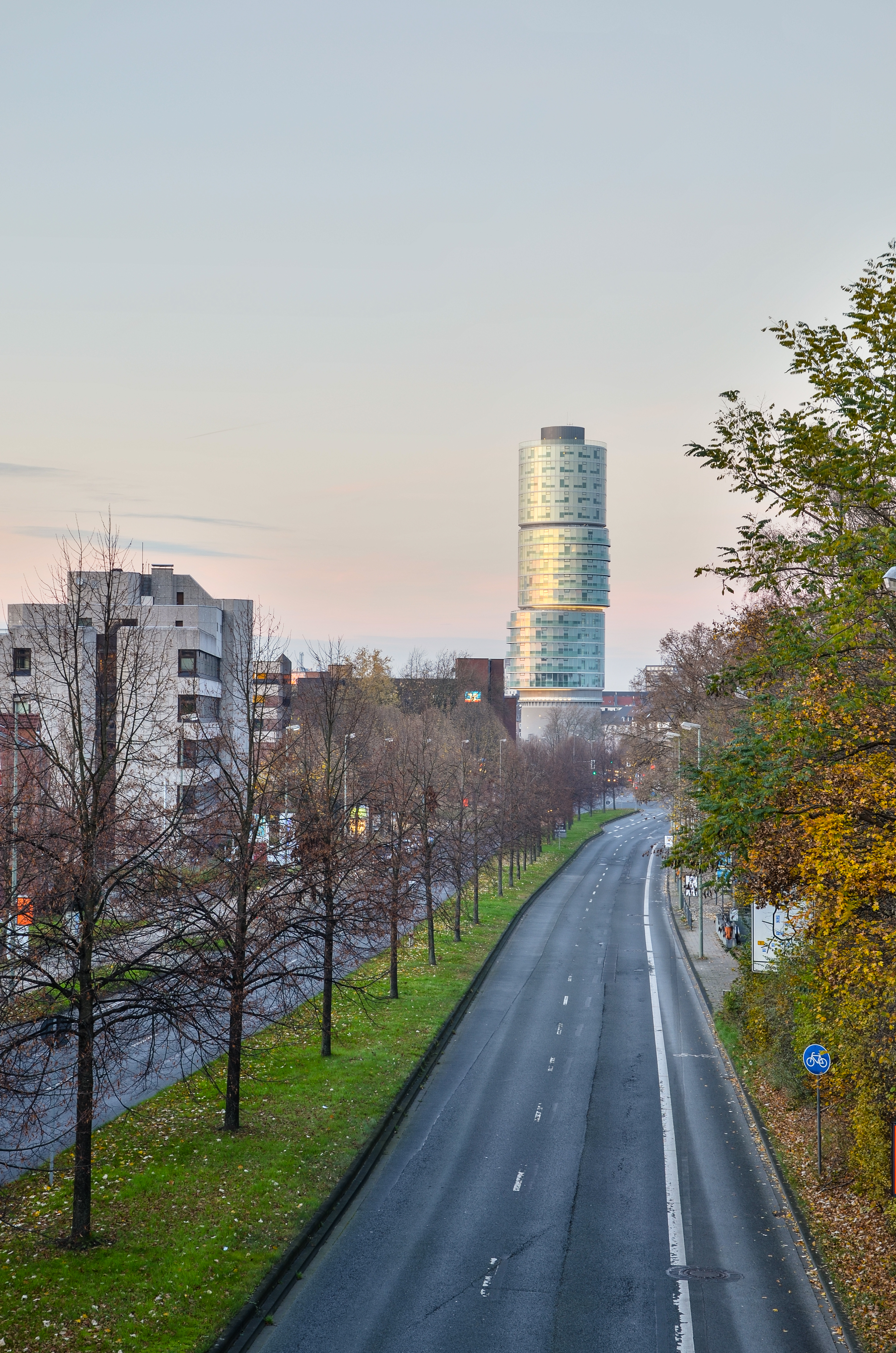 Exzenterhaus Unistraße